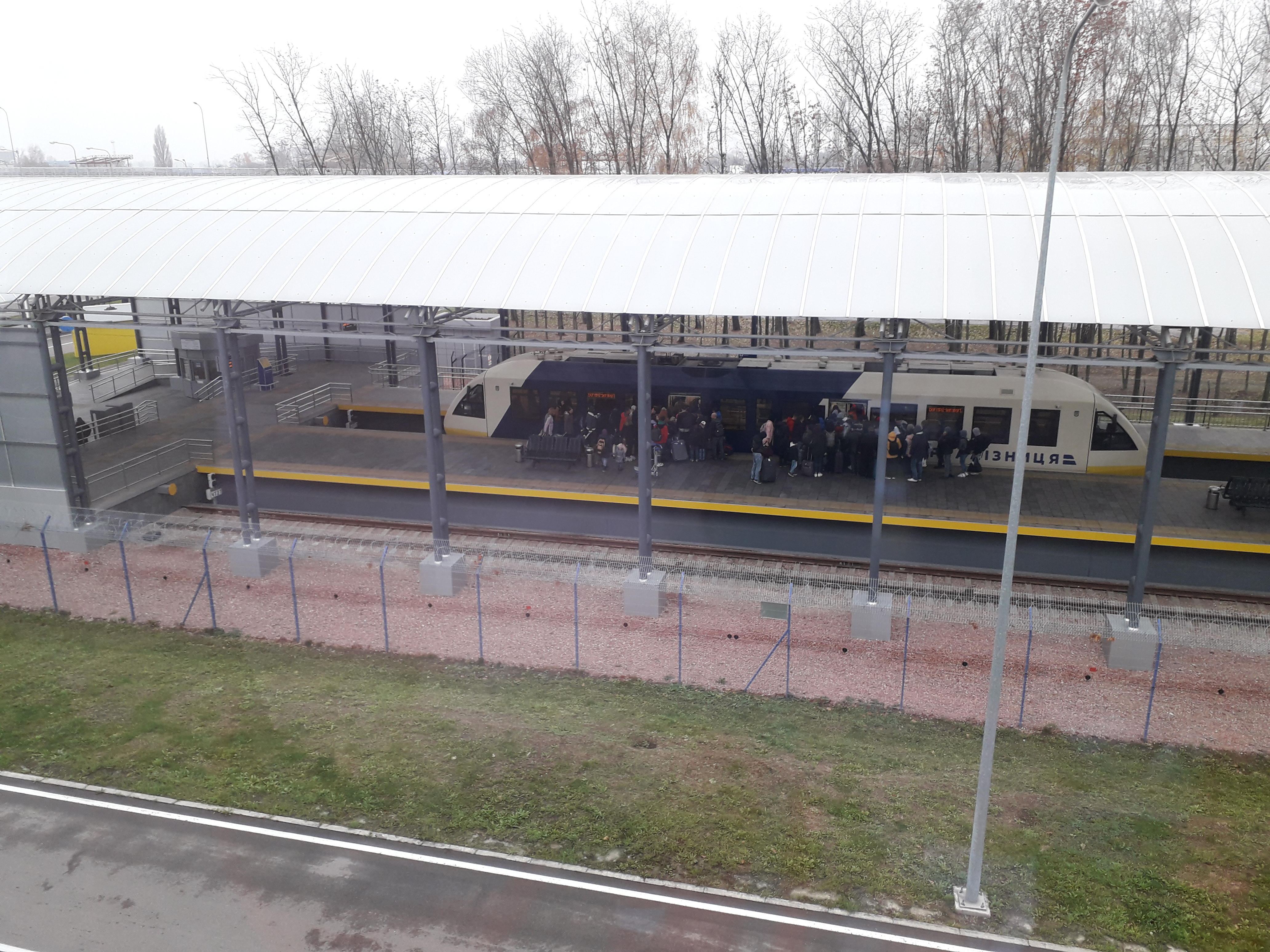 Kyiv Boryspil Express at the station near Terminal D